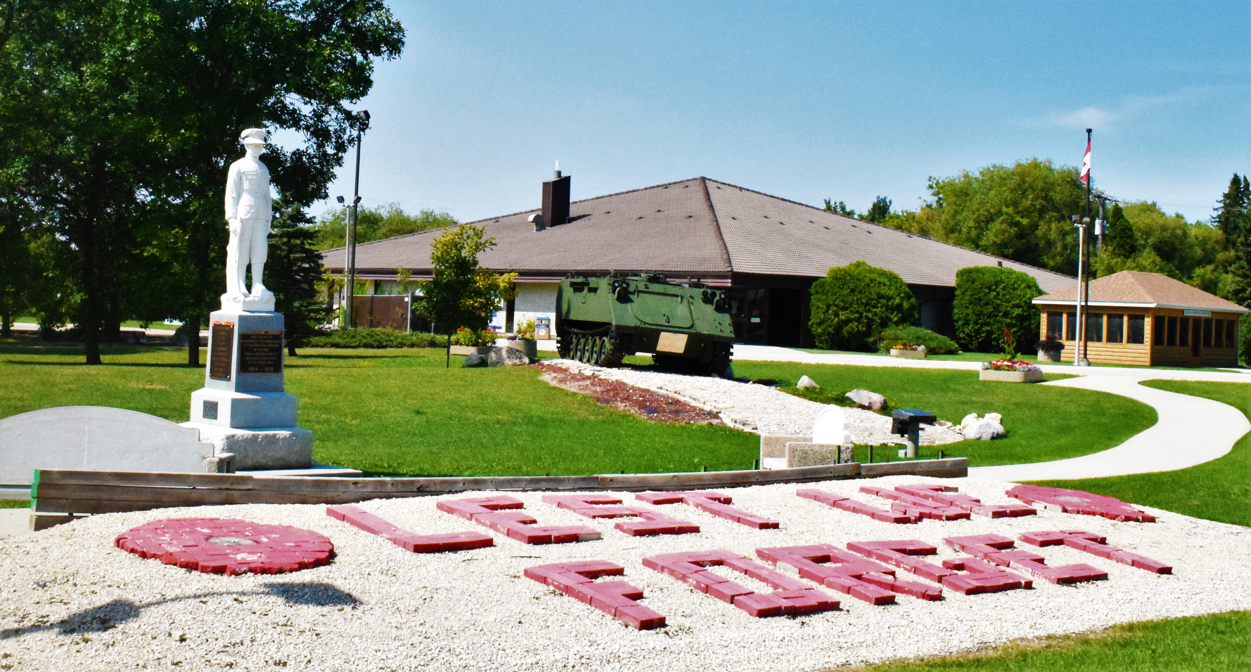 The war memorial and armoured vehicle statue and public library in Dugald, Manitoba.